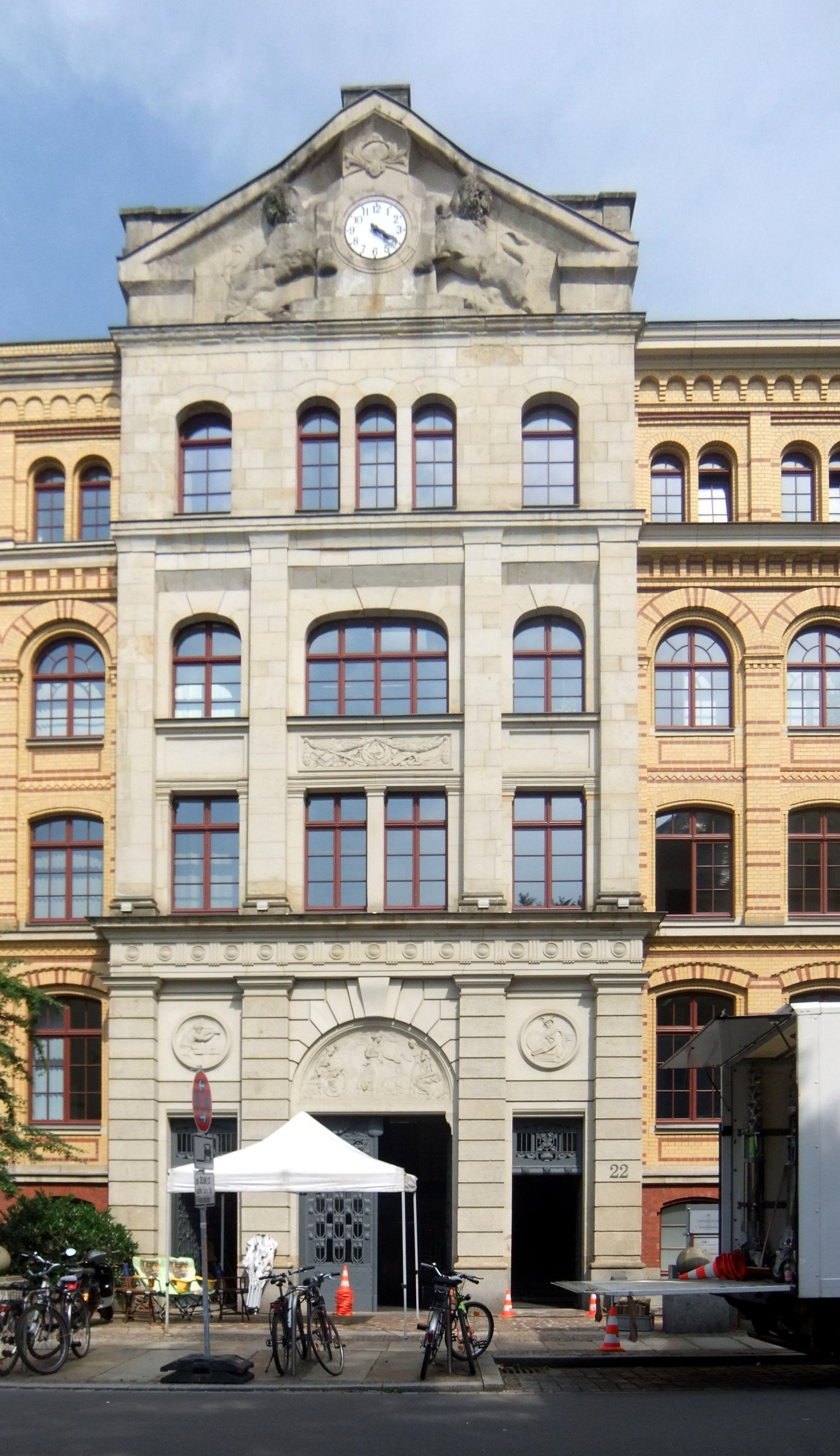 The SOKO Leipzig Studio in the Inselstraße.